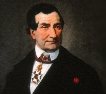 Arcisse de Caumont (1801-1873), 19th-century French archaeologist.